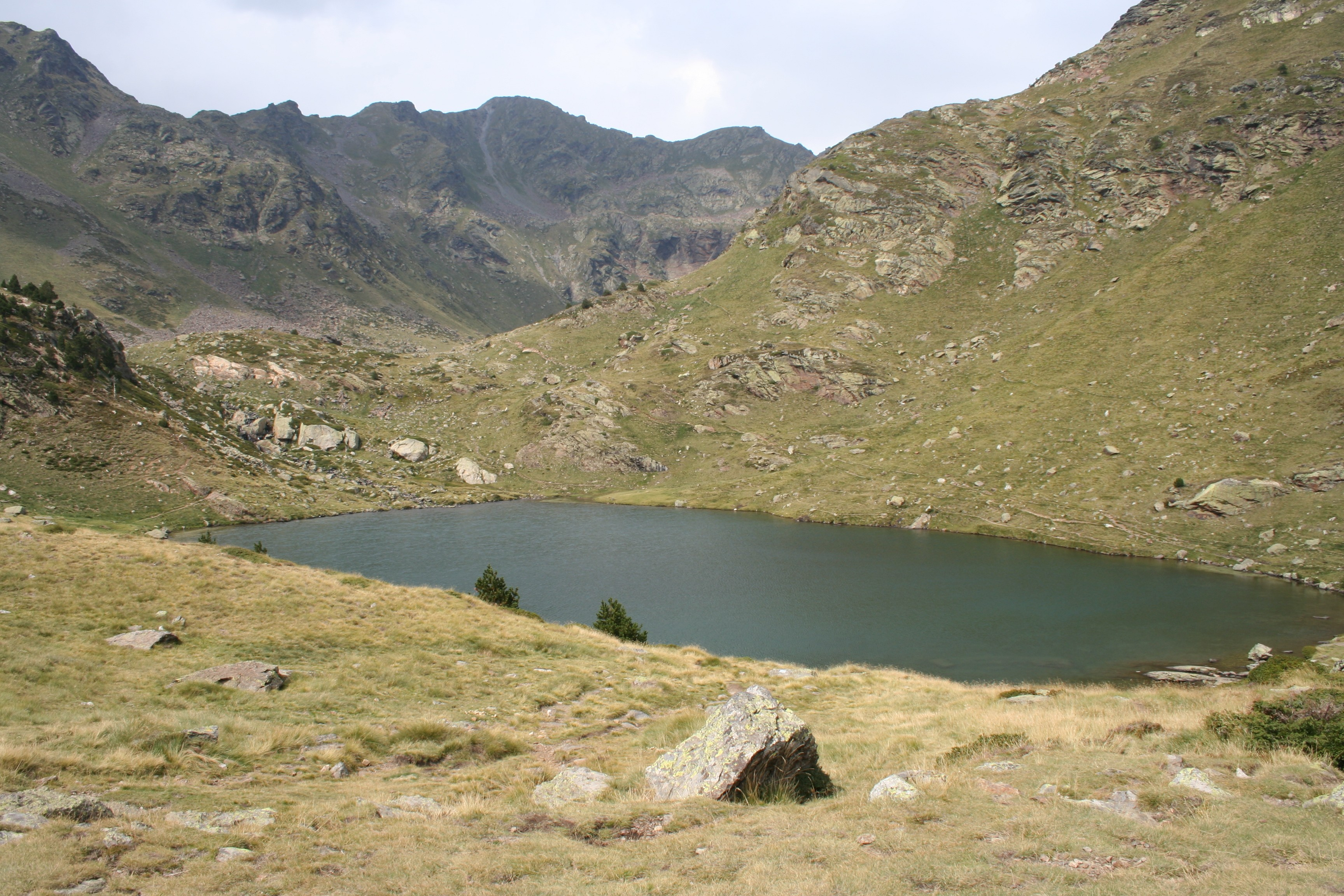 The lake of Tristaina de Baix, near the Ordino-Arcalís ski-resort